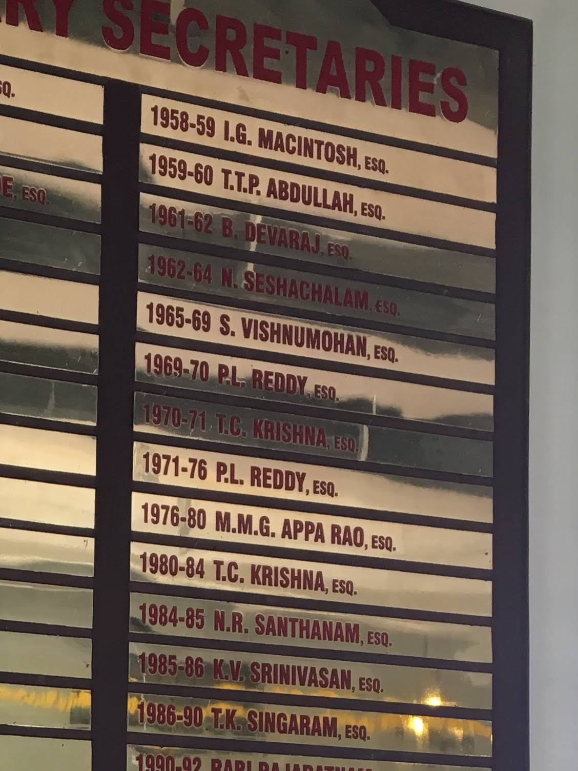 Plaque of Madras Gymkhana Club list of Honorary Secretaries on display at the club entrance